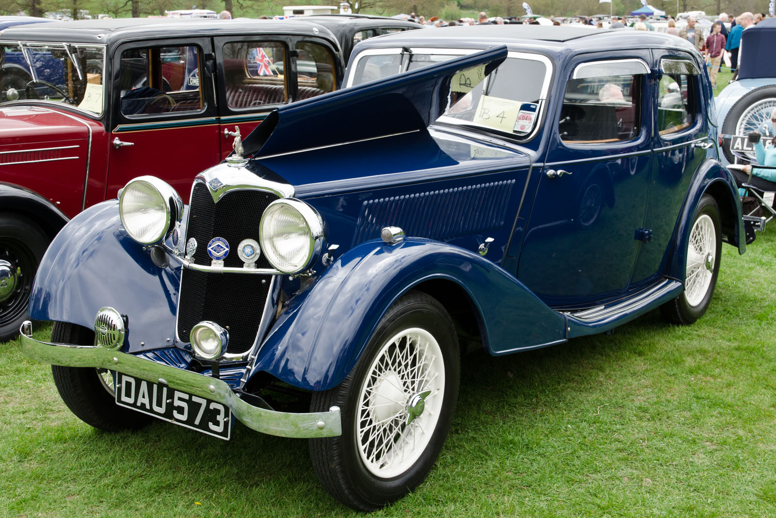 Riley Falcon 1937 (DVLA) first registered 22 February 1937, 1479cc Catton Hall Classic Car Show 05/05/2013